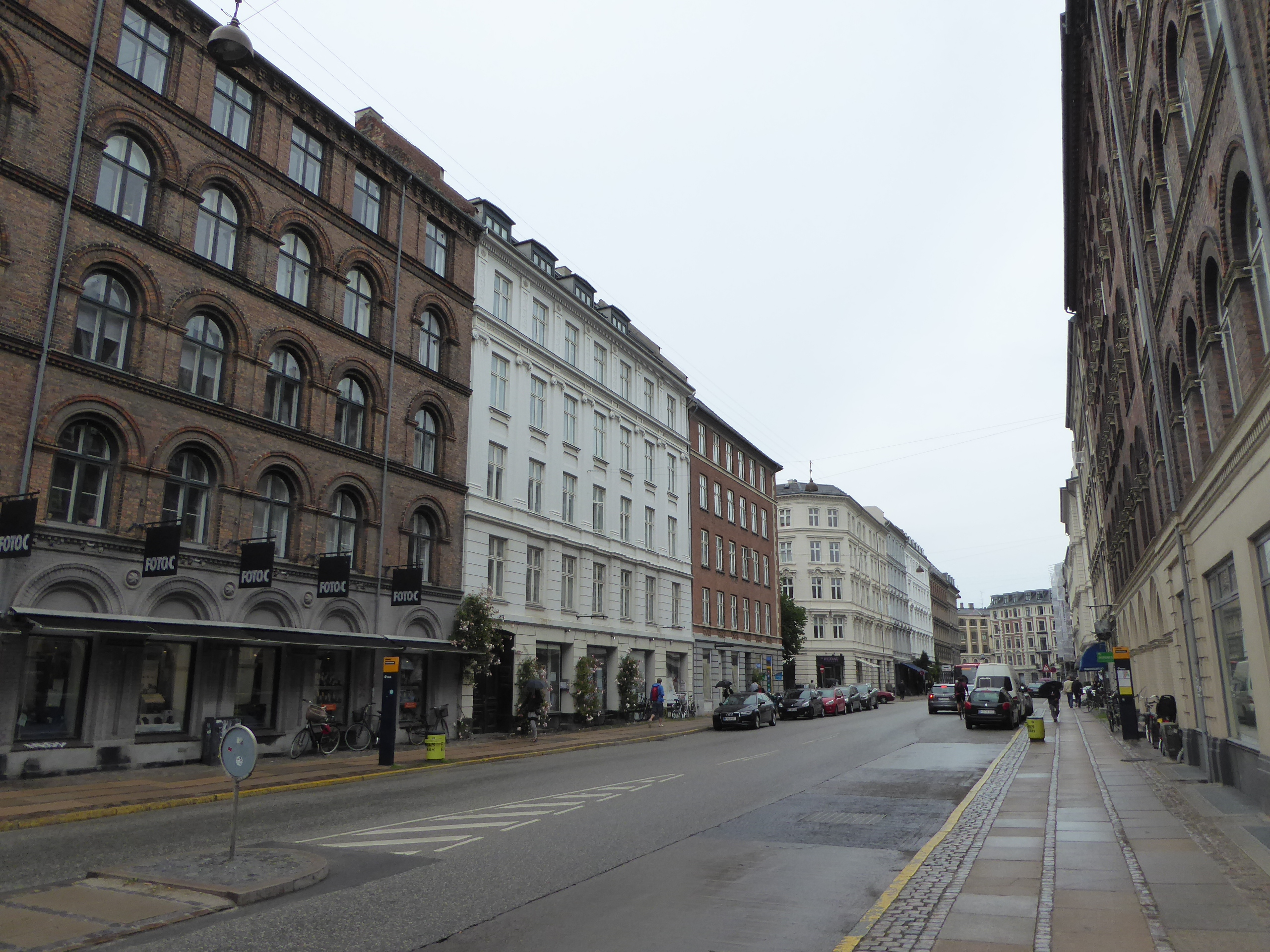 The street Holbergsgade in Indre By in Copenhagen.